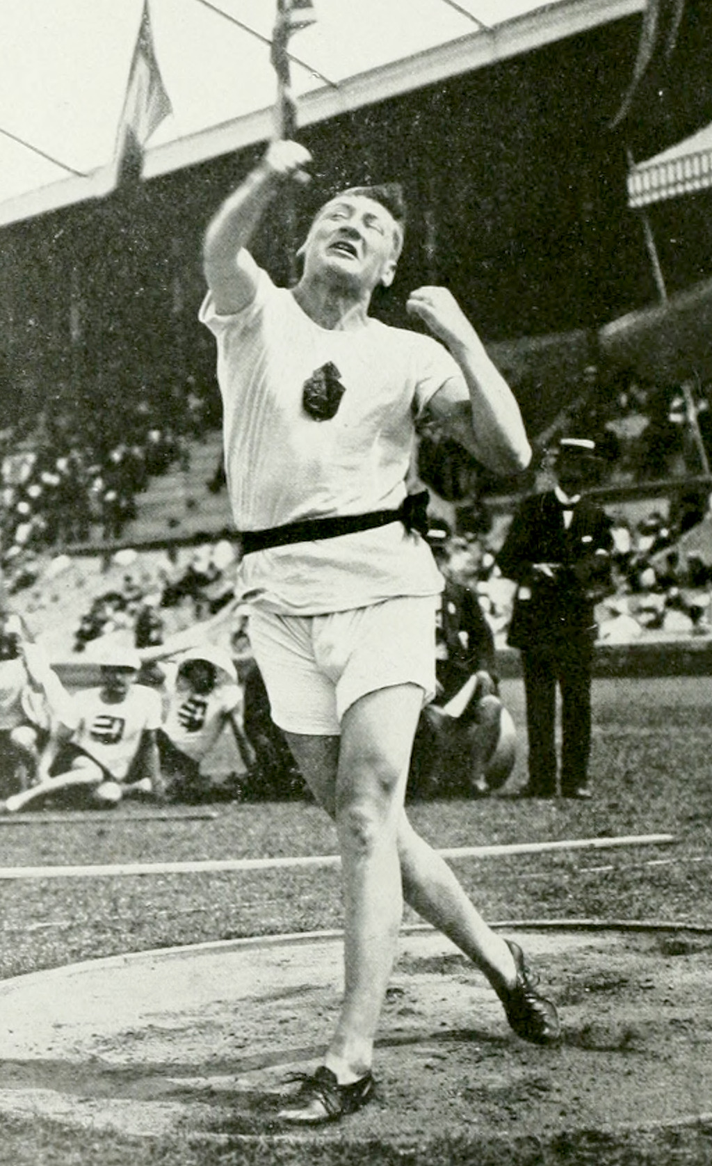 Armas Taipale during the discus throw competition at the 1912 Summer Olympics